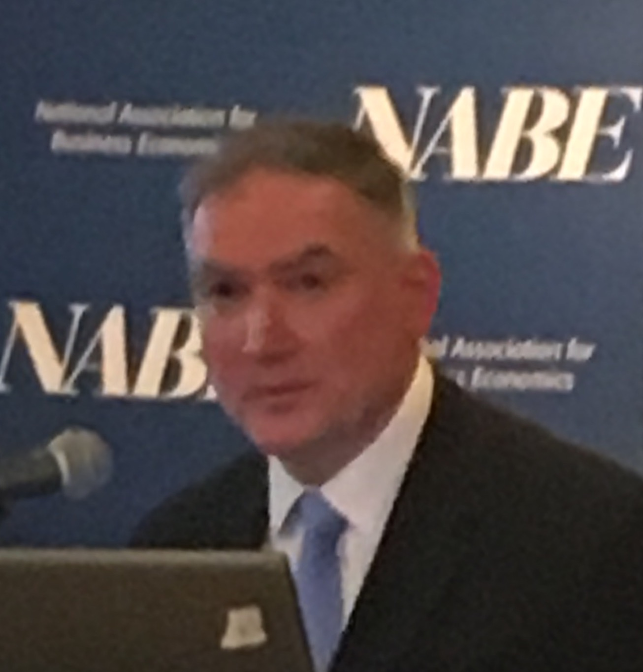 Speaking at NABE conference. Was chief of the Hellenic Statistical Authority